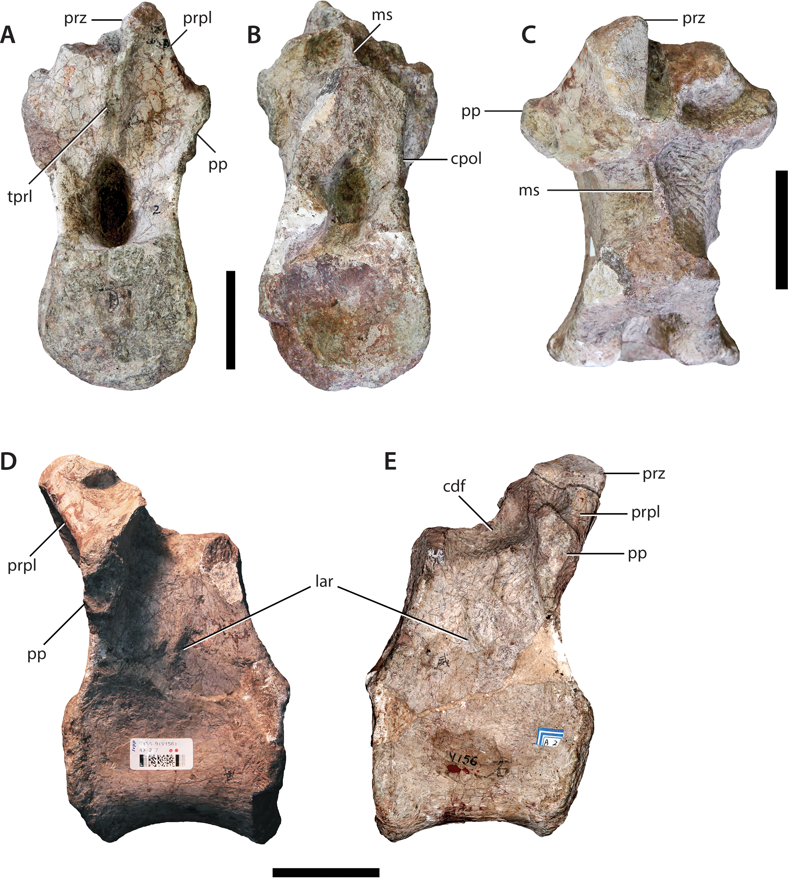 Dorsal vertebra (IVPP V156AI) of Sanpasaurus. (A) Anterior view; (B) posterior view; (C) dorsal view; (D) left lateral view; (E) right lateral view. Abbreviations: cdf, centrodiapophyseal fossa; cpol, centropostzygapophyseal lamina; lar, lateral ridge; ms, midline septum; pp, parapophyses; prpl, prezygoparapophyseal lamina; prz, prezygapophyses; tprl, intraprezygapophyseal lamina. Scale bars equal 5 cm. Photographs by B.W.M. and C.S.overbite.